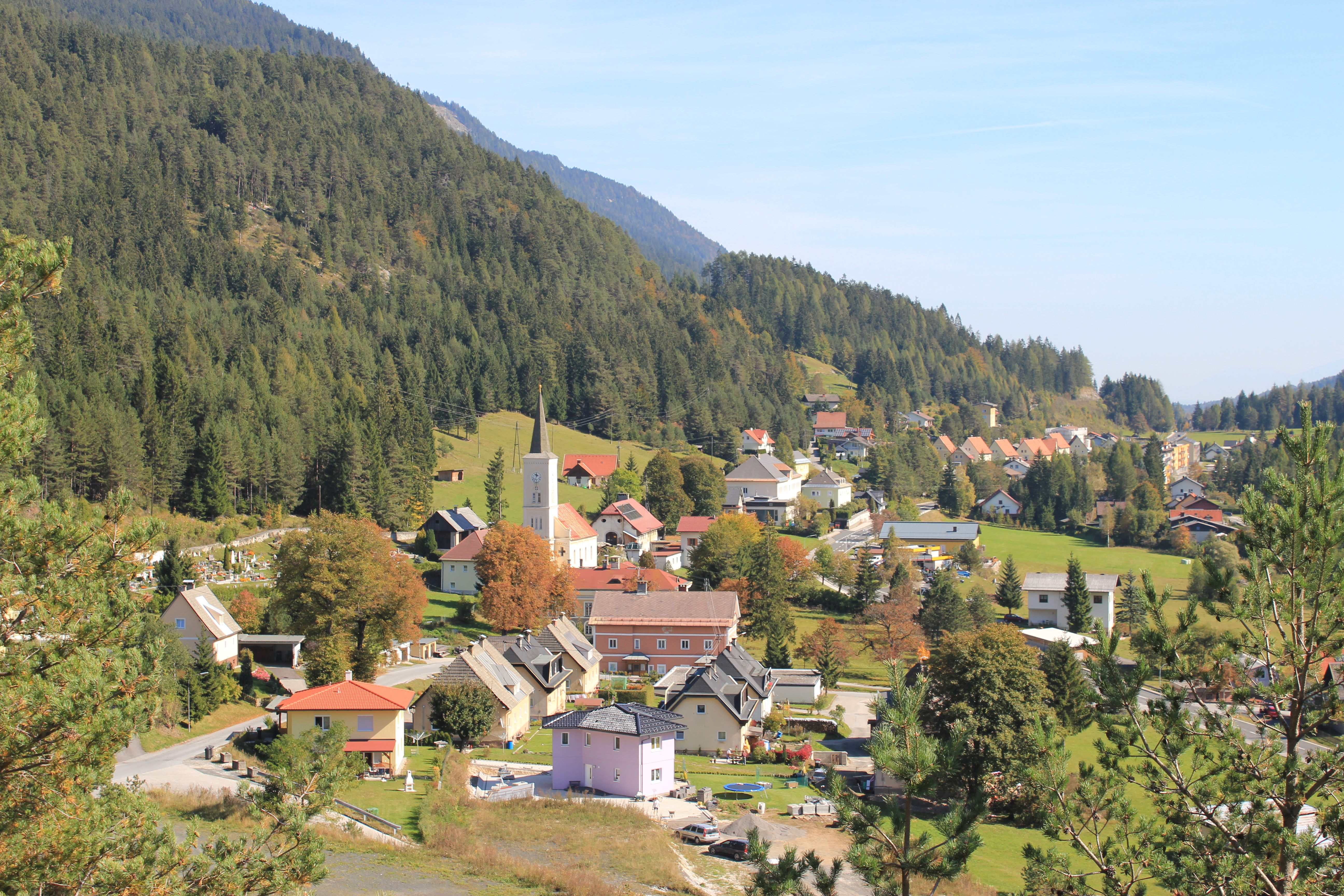 Bleiberg-Nötsch in the community of Bad Bleiberg